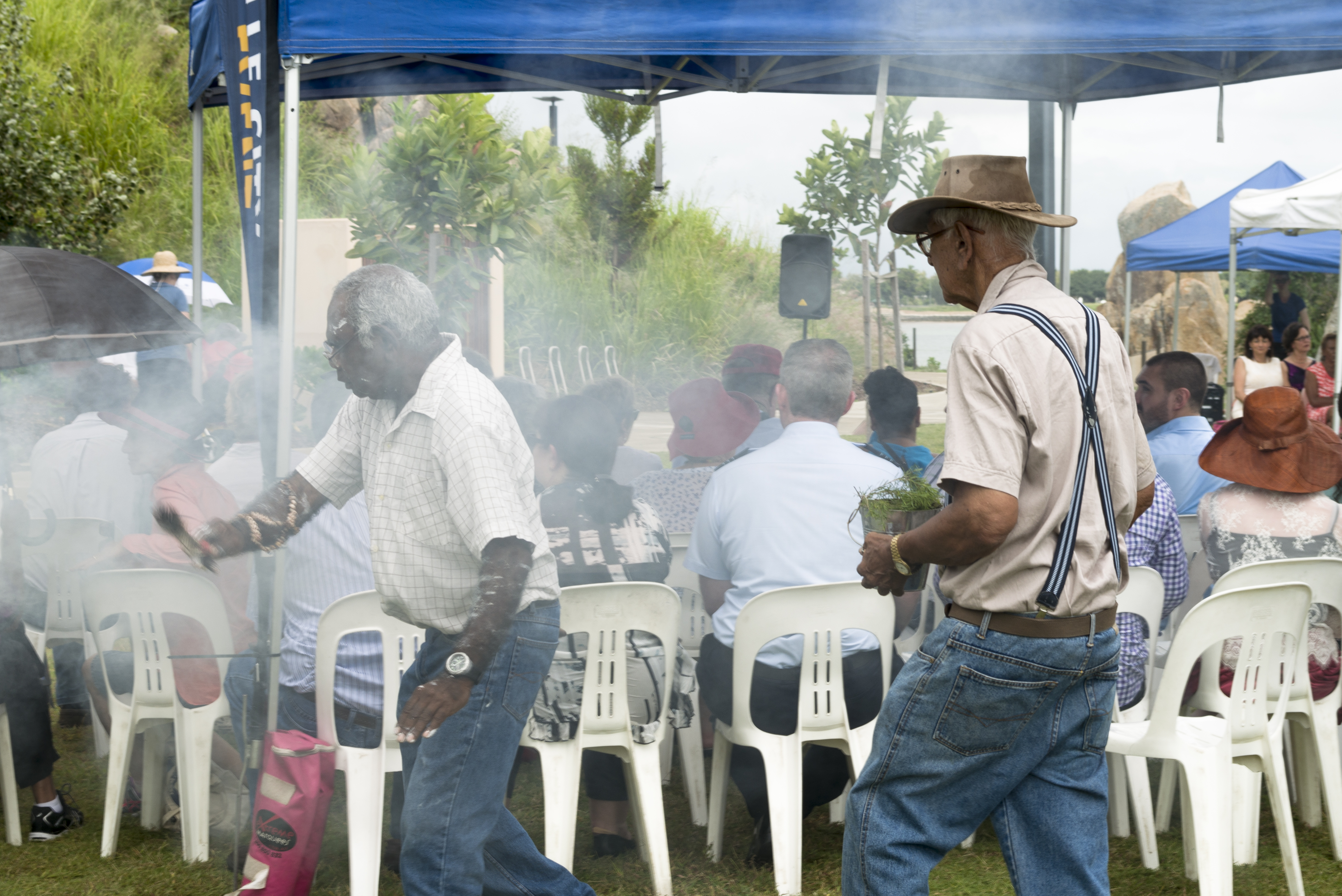 Smoking ceremony during Welcome to Country performance by Bindal and Wulgurukaba people at the handover of Jezzine Barracks to the people of Townsville, Queensland, on 5 April 2014.